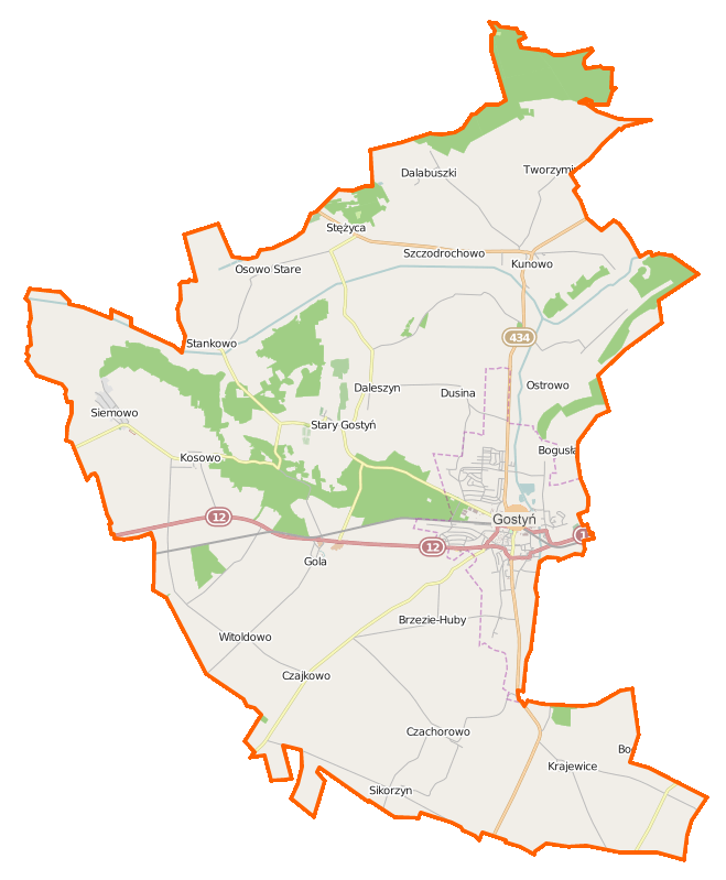 Map of Gmina Gostyń, Poland This map of Gostyń (gmina) was created from OpenStreetMap project data, collected by the community. This map may be incomplete, and may contain errors. Don't rely solely on it for navigation. Border coordinates51.984516.8523←↕→17.078851.8152